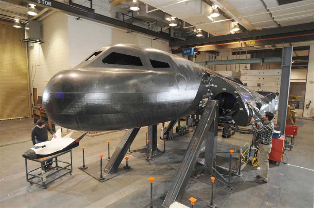 This images is the Dream Chaser spacecraft primary structure undergoing testing at the University of Colorado at Boulder during CCDev 1.